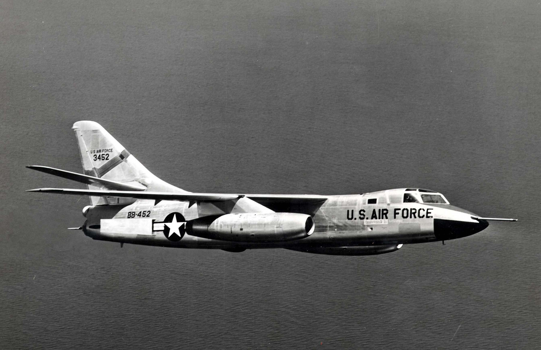 Douglas RB-66B Destroyer in flight (SN 53-452)